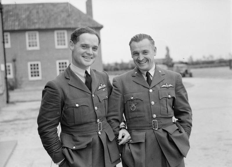 RAF Fighter Command Squadron Leader Douglas Bader, commanding No. 242 (Canadian) Squadron, with Major Alexander 'Sasha' Hess, CO of No. 310 (Czechoslovak) Squadron, Duxford, September 1940.